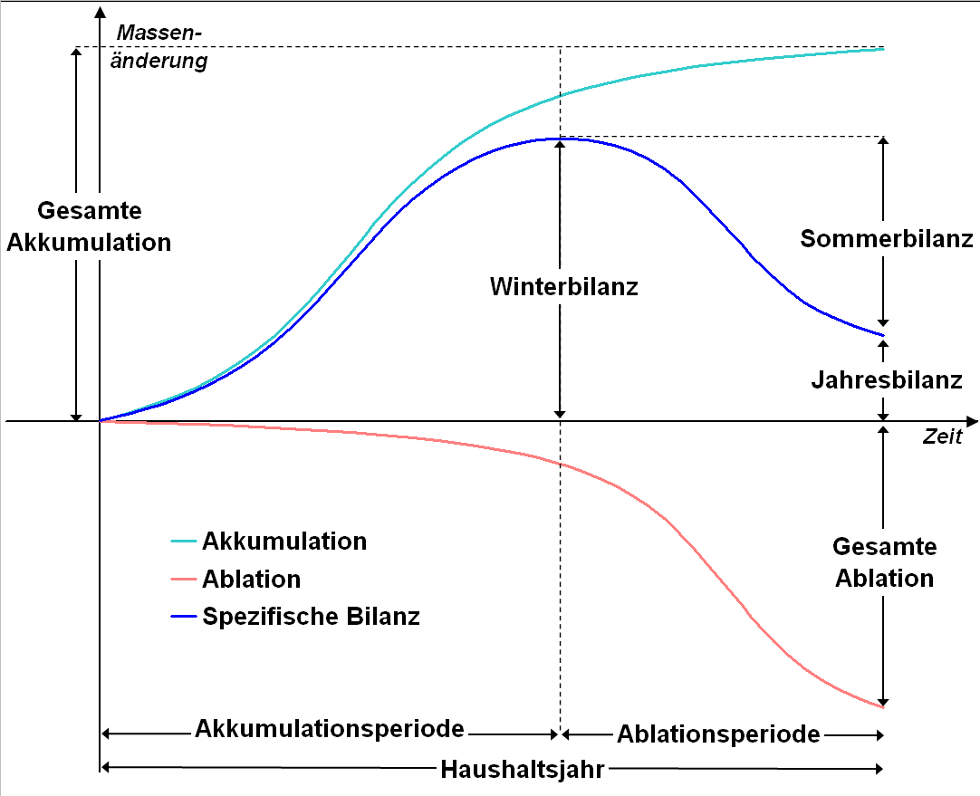 Glacier mass balance, explanation of balance year, winter and summer balance